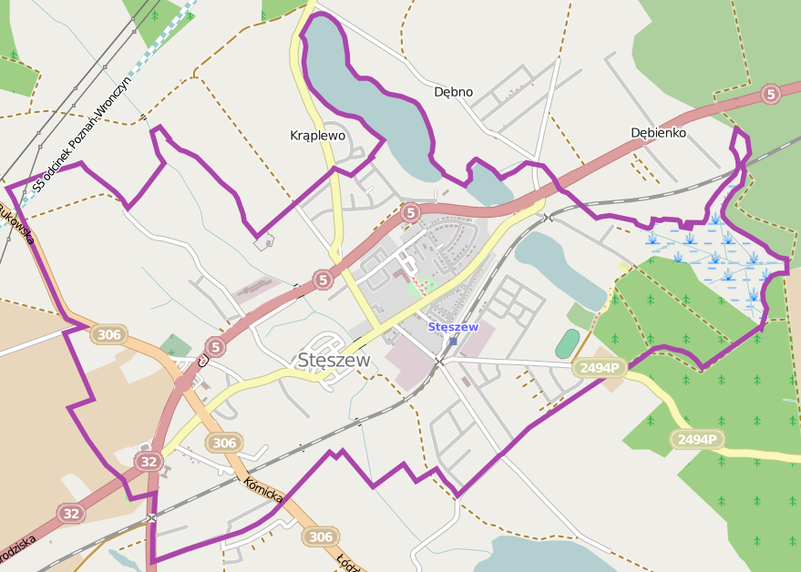 Map of Stęszew, Poland This map of Stęszew was created from OpenStreetMap project data, collected by the community. This map may be incomplete, and may contain errors. Don't rely solely on it for navigation. Border coordinates52.296916.6731←↕→16.737652.2686